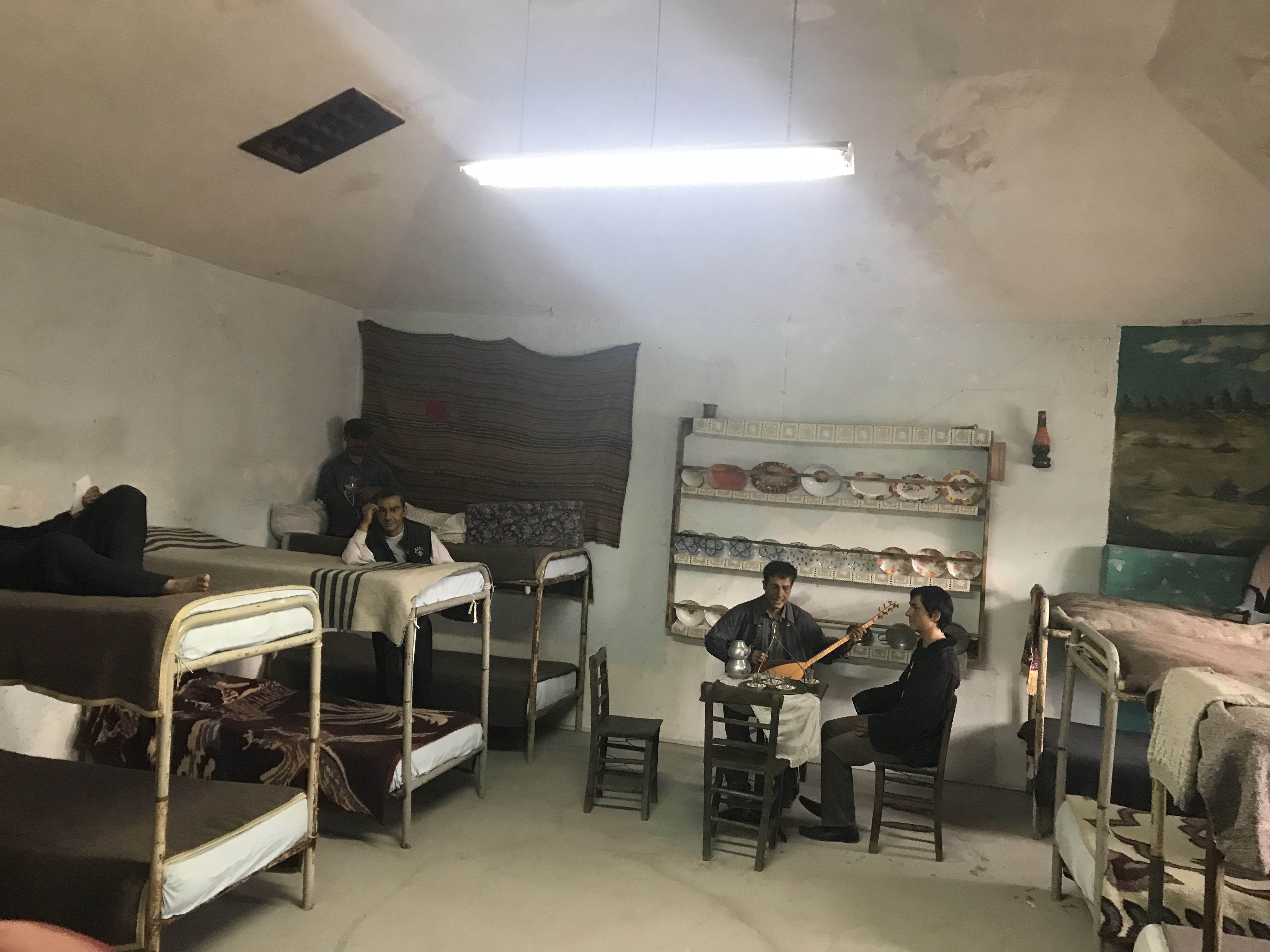 Ward exhibition of Ulucanlar Prison Museum